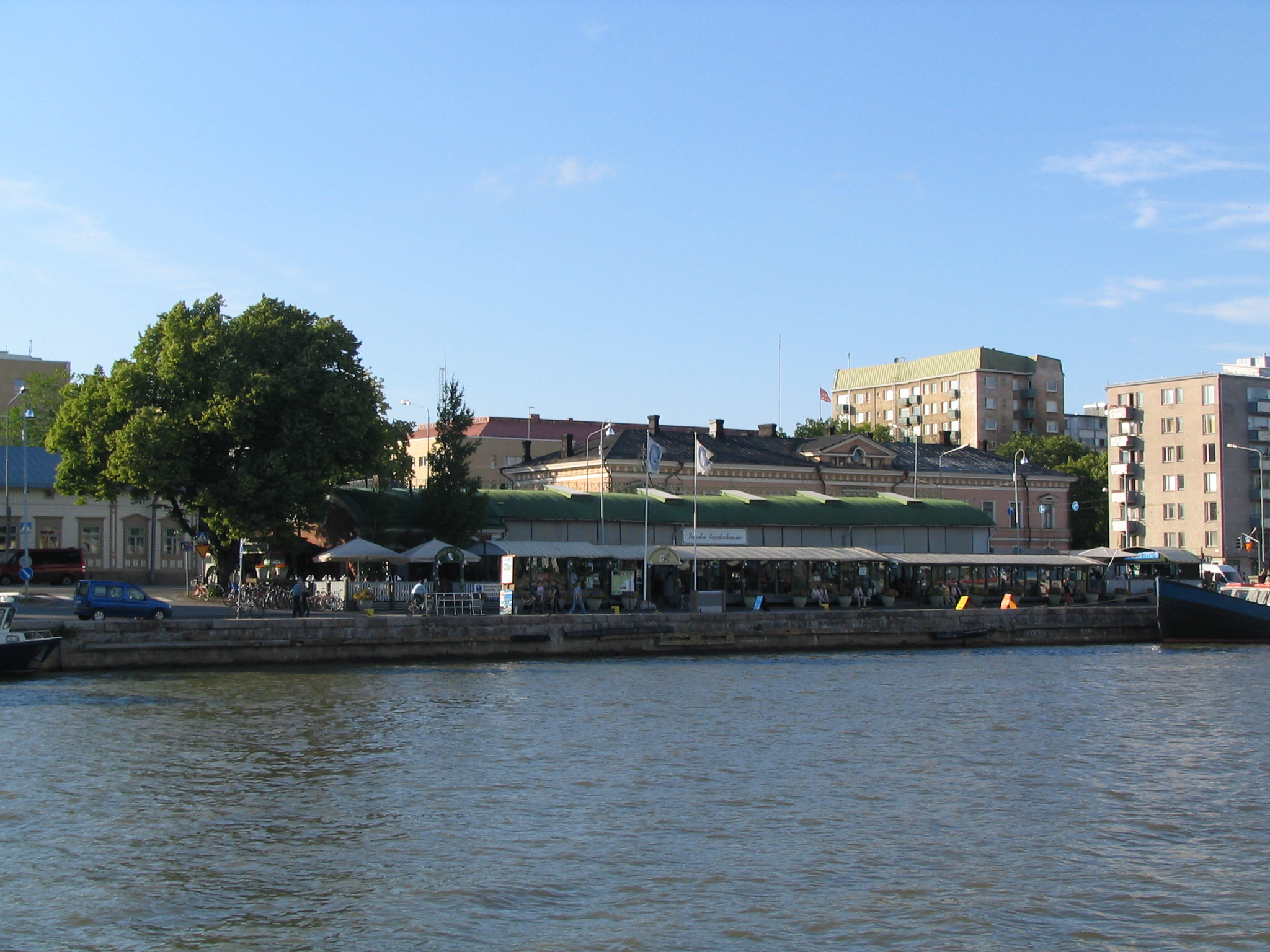 Building of Pavilion Vaakahuone.